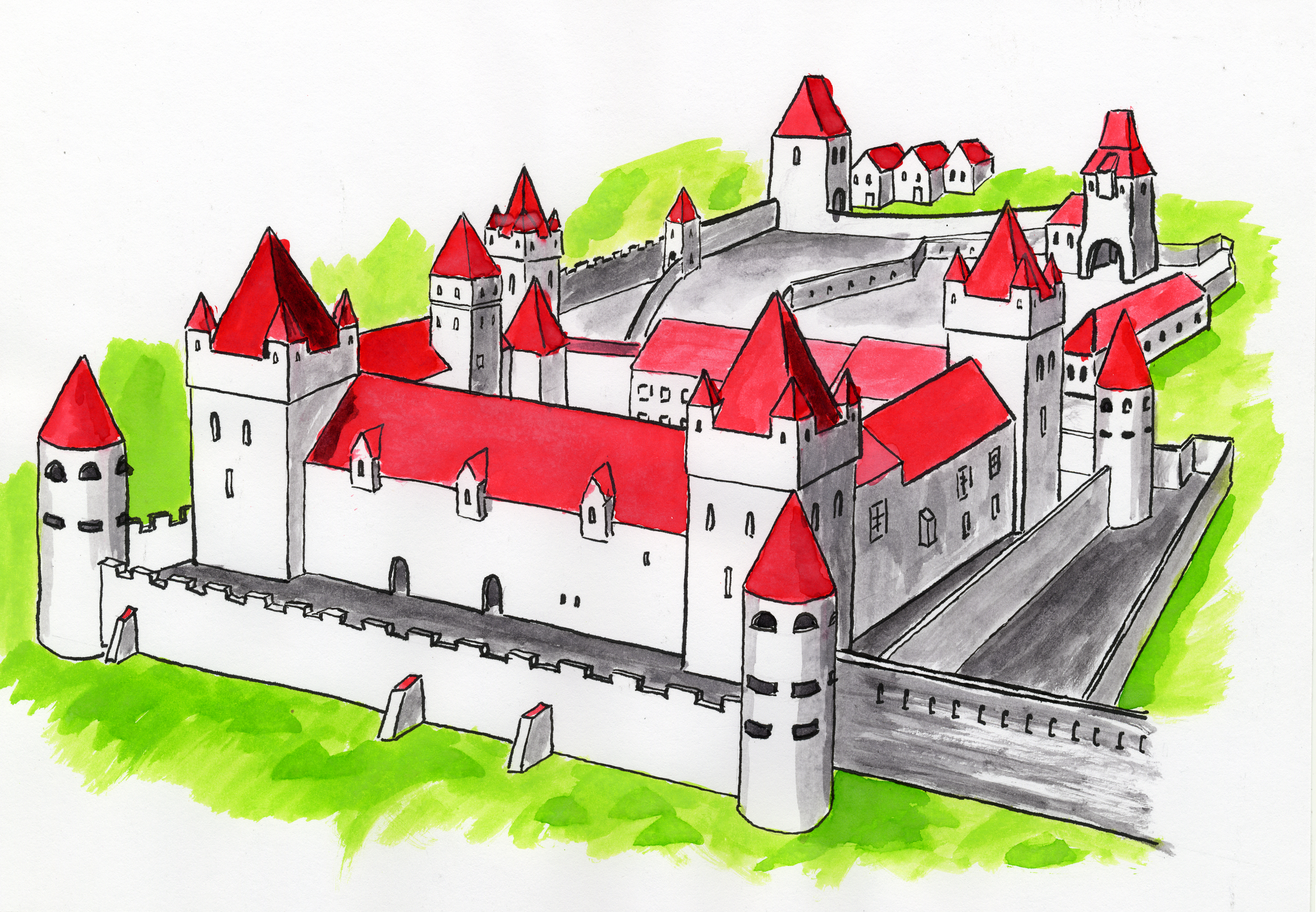 Reconstucted picture of the Kőszeg castle, Hungary.